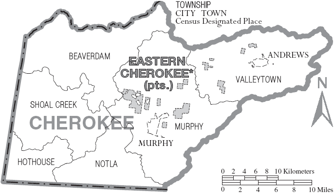 Map of Cherokee County, North Carolina, United States with township and municipal boundaries